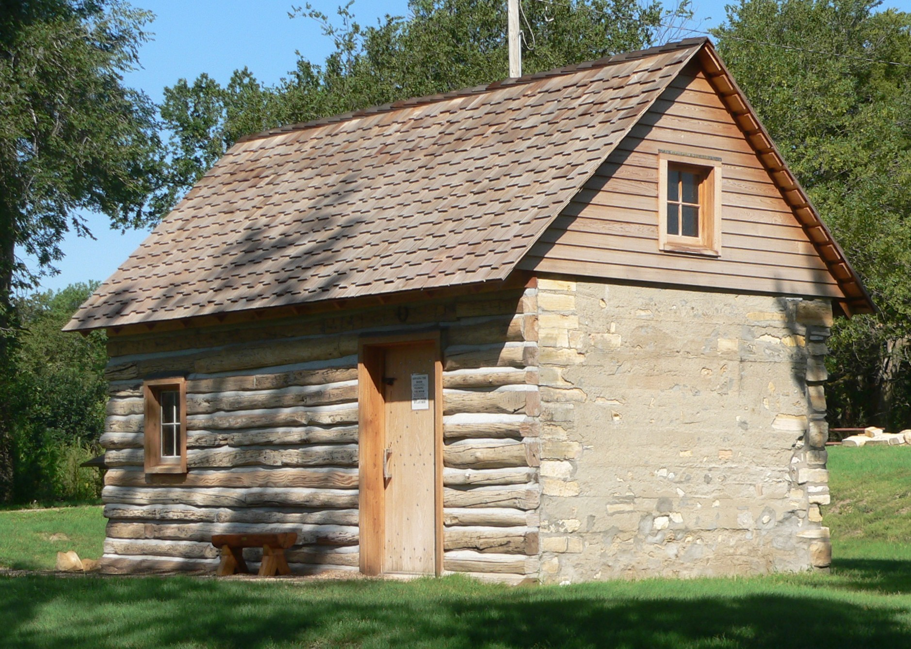 Home on the Range cabin, located in Smith County, Kansas; seen from the southeast.